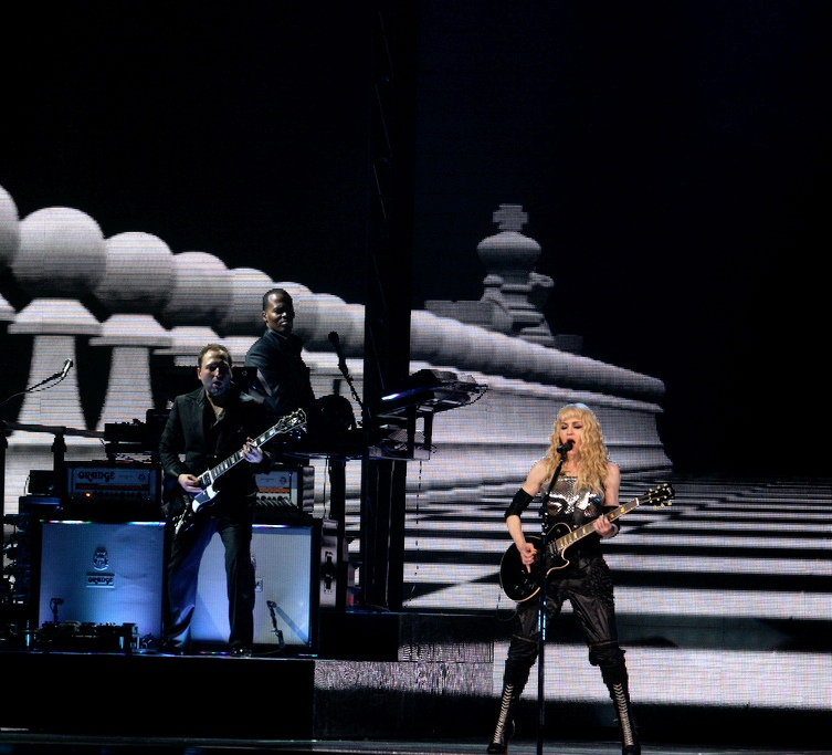 Madonna performing "Hung Up" on the Sticky & Sweet Tour, as a game of chess is shown on the screen